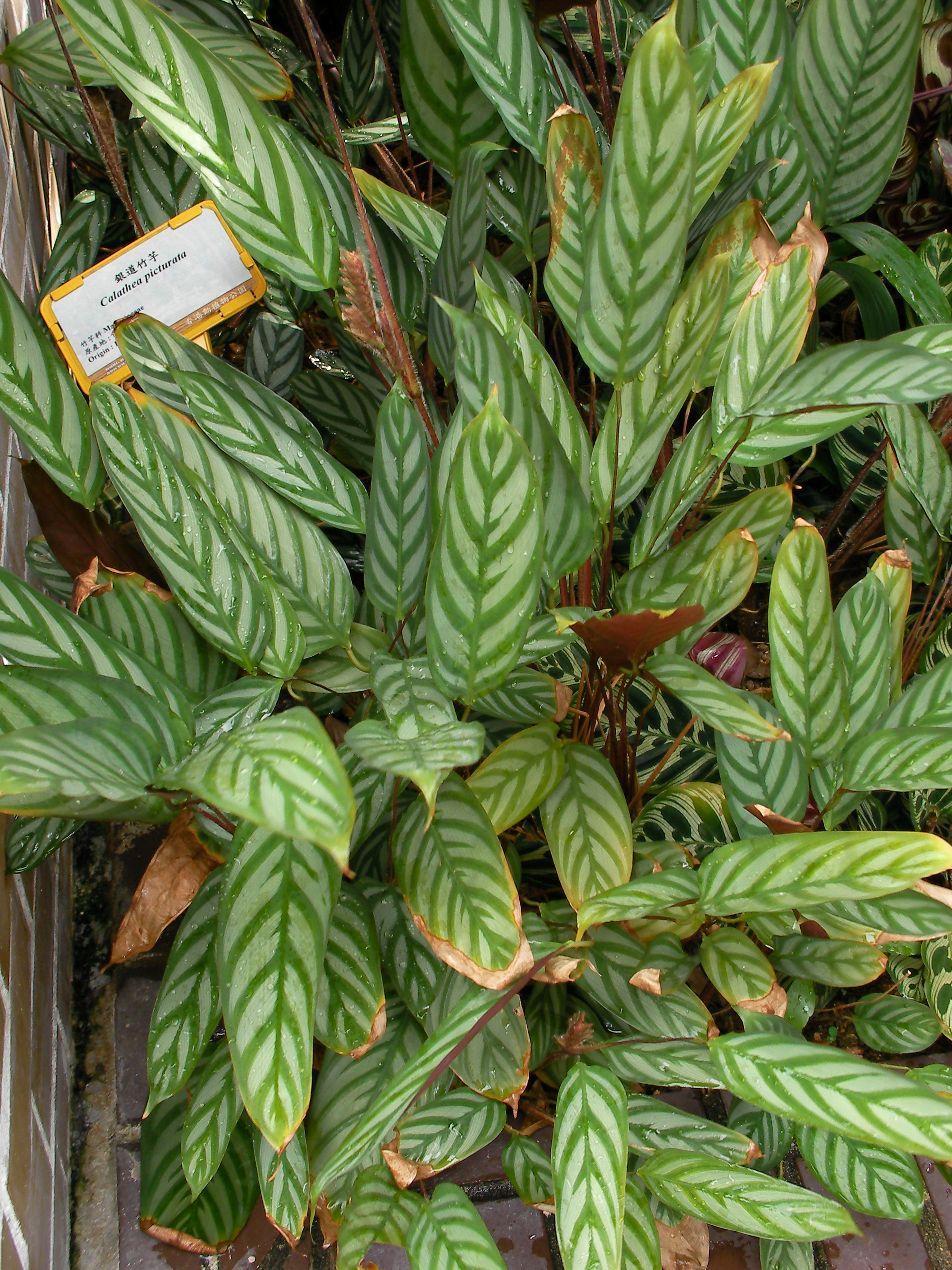 Ctenanthe setosa taken in Hong Kong Zoological and Botanical Gardens Note: Identification plate was apparently mistakenly changed with the one for Calathea picturata, see File:Calathea picturata 'Argentea'.jpg